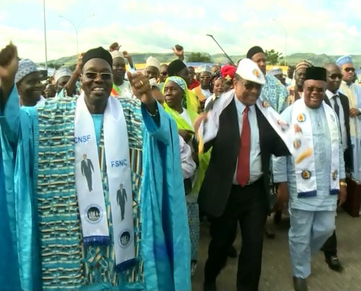 Cameroon's communication minister and leader of the National Salvation Front party, Issa Tchiroma (L), campaign in support of incumbent President Paul Biya in Garoua, Cameroon, Sept 22, 2018. (M.E. Kindzeka/VOA)